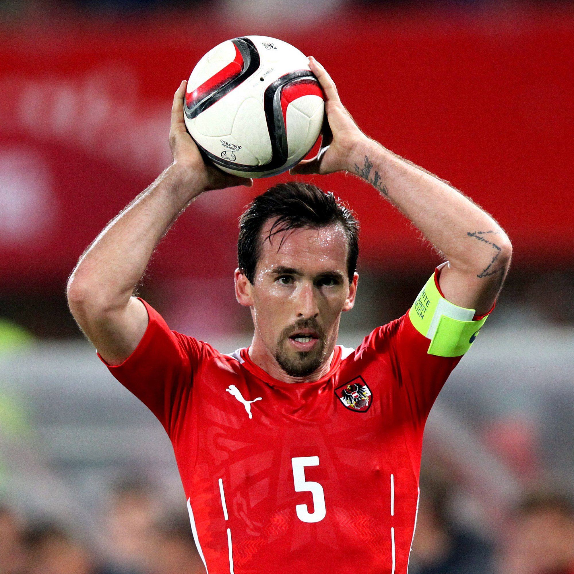 UEFA Euro 2016 qualifying, Group G – Austria national football team (red shirts) vs. Moldova national football team (blue shirts) on 2015-09-05 in Ernst-Happel-Stadion, Vienna: The photo shows Christian Fuchs